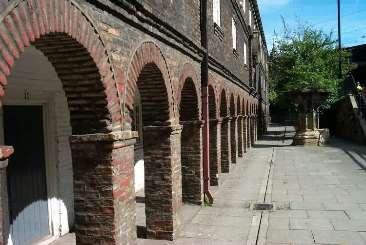 The front of the Holy Jesus Hospital.